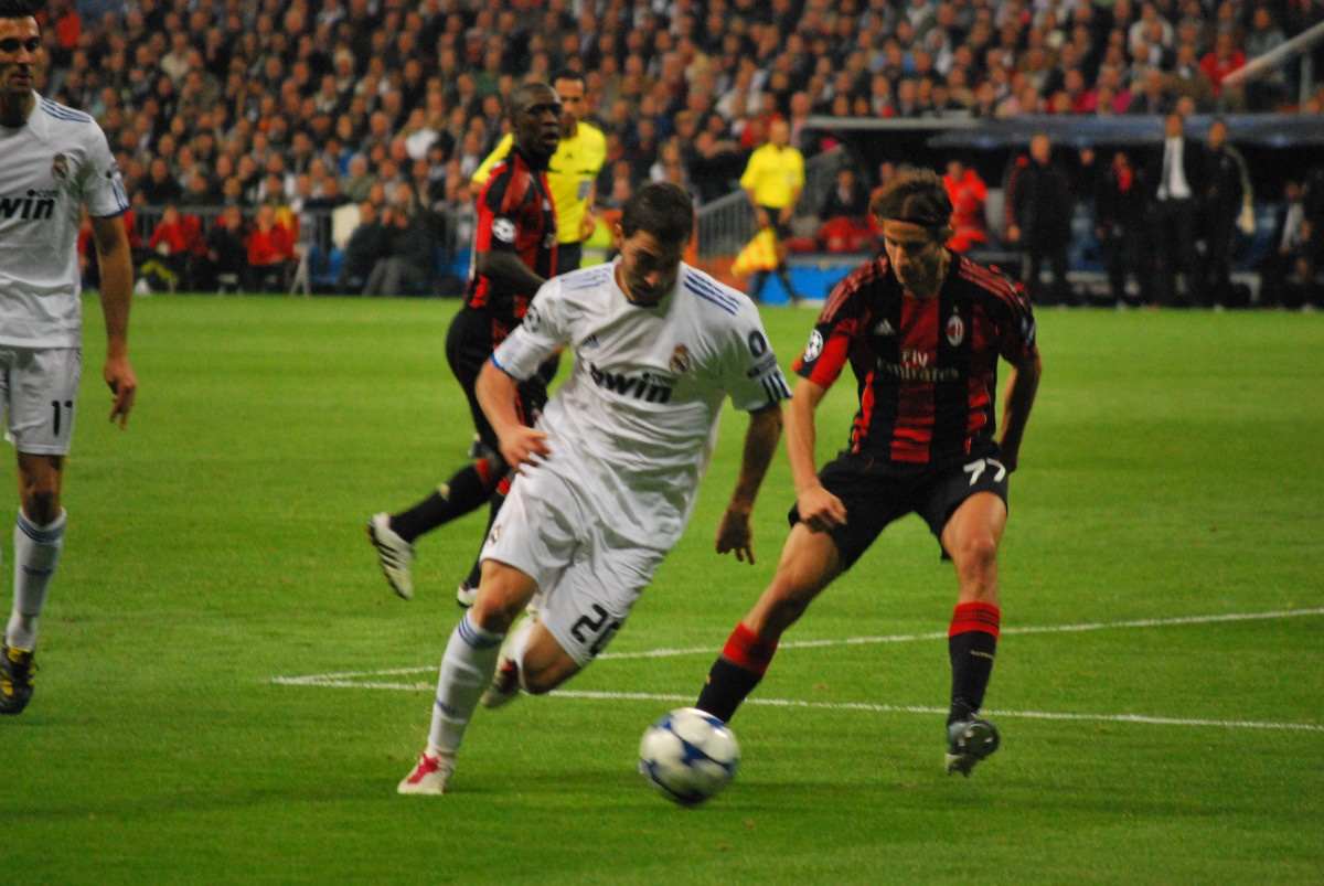 Gonzalo Higuaín and Luca Antonini during Real Madrid CF-AC Milan, 2010–11 UEFA Champions League